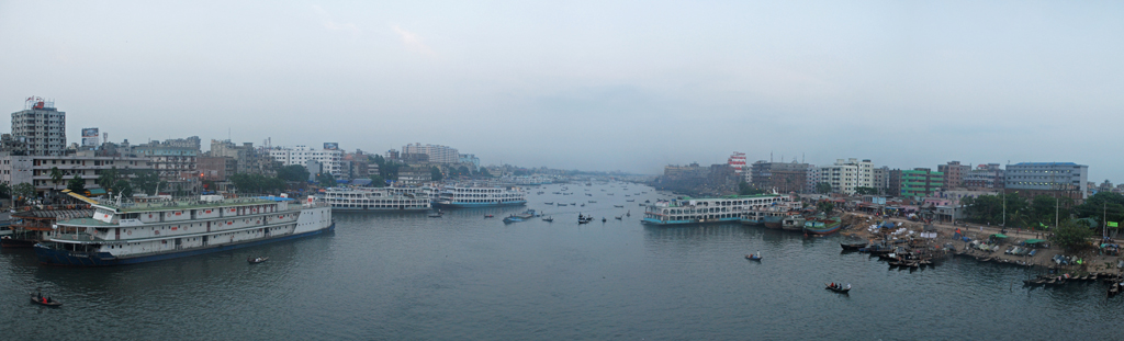 Panoramic view of Buri Ganga River from the bridge, Old Dhaka